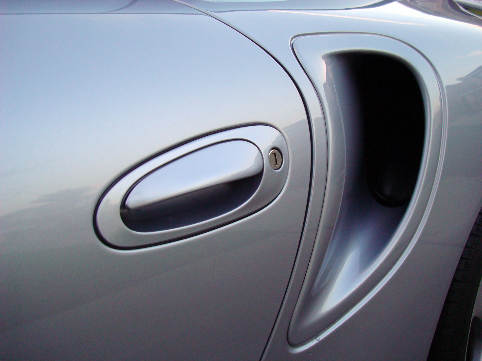 Porsche 996 Turbo air scoop (air intake). [extra air...my car has a good vo2 max...]